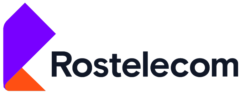 Logo of Rostelecom.